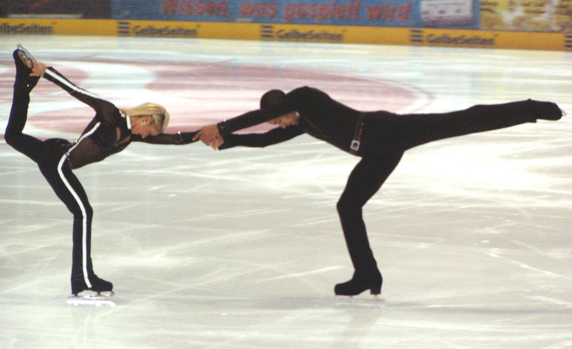 Aljona Savchenko and Robin Szolkowy at the short program at the German championships 2006 in Berlin